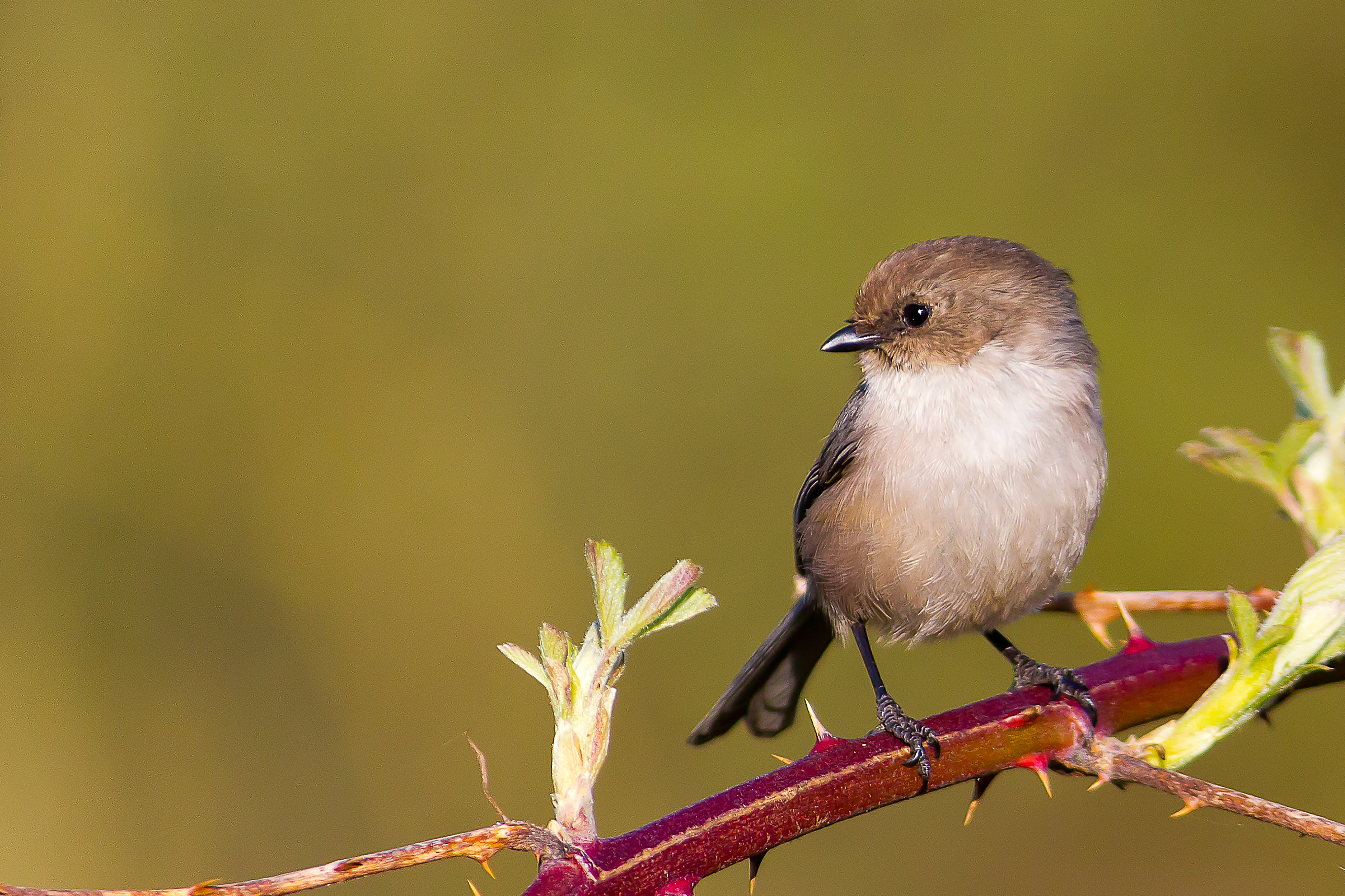 A male adult American Bushtit standing watch for the flock on top of a blackberry bush in Chilliwack, British Columbia, Canada.